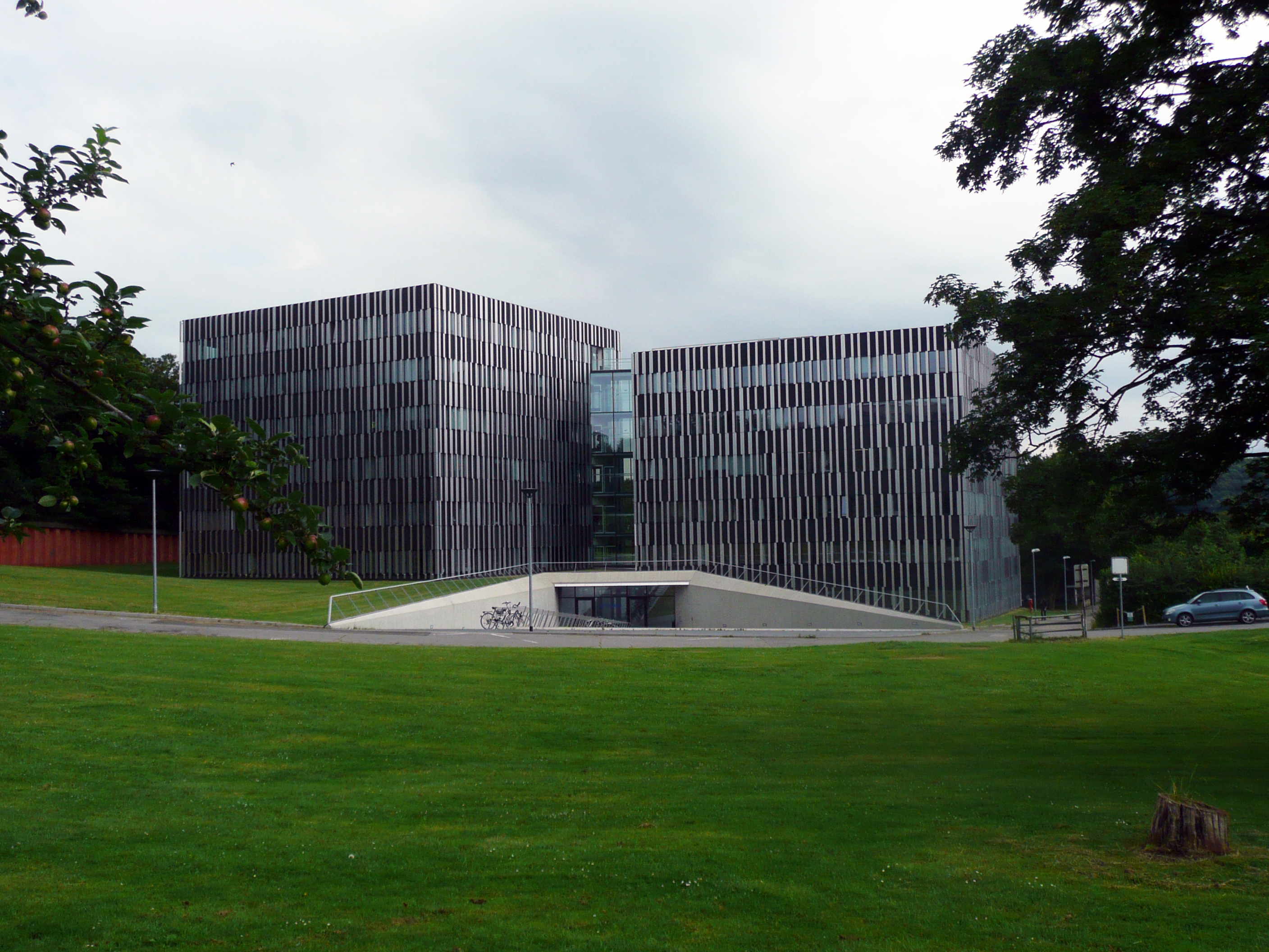 These buildings are called "ICT Cubes" and belong to the electrical engineering department, RWTH Aachen University (completed in 2015)